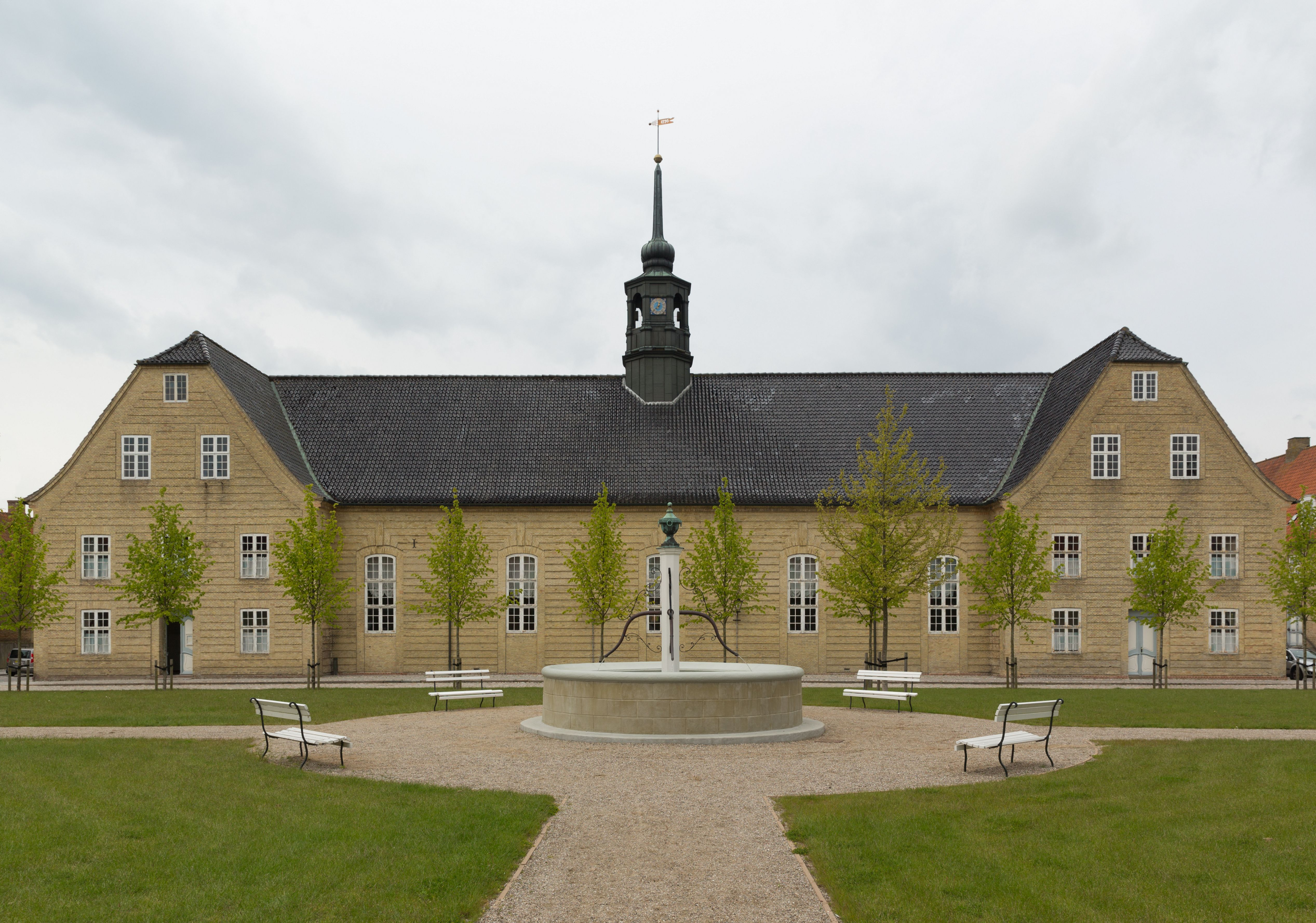 The Moravian Church in Christiansfeld 31 May 2015